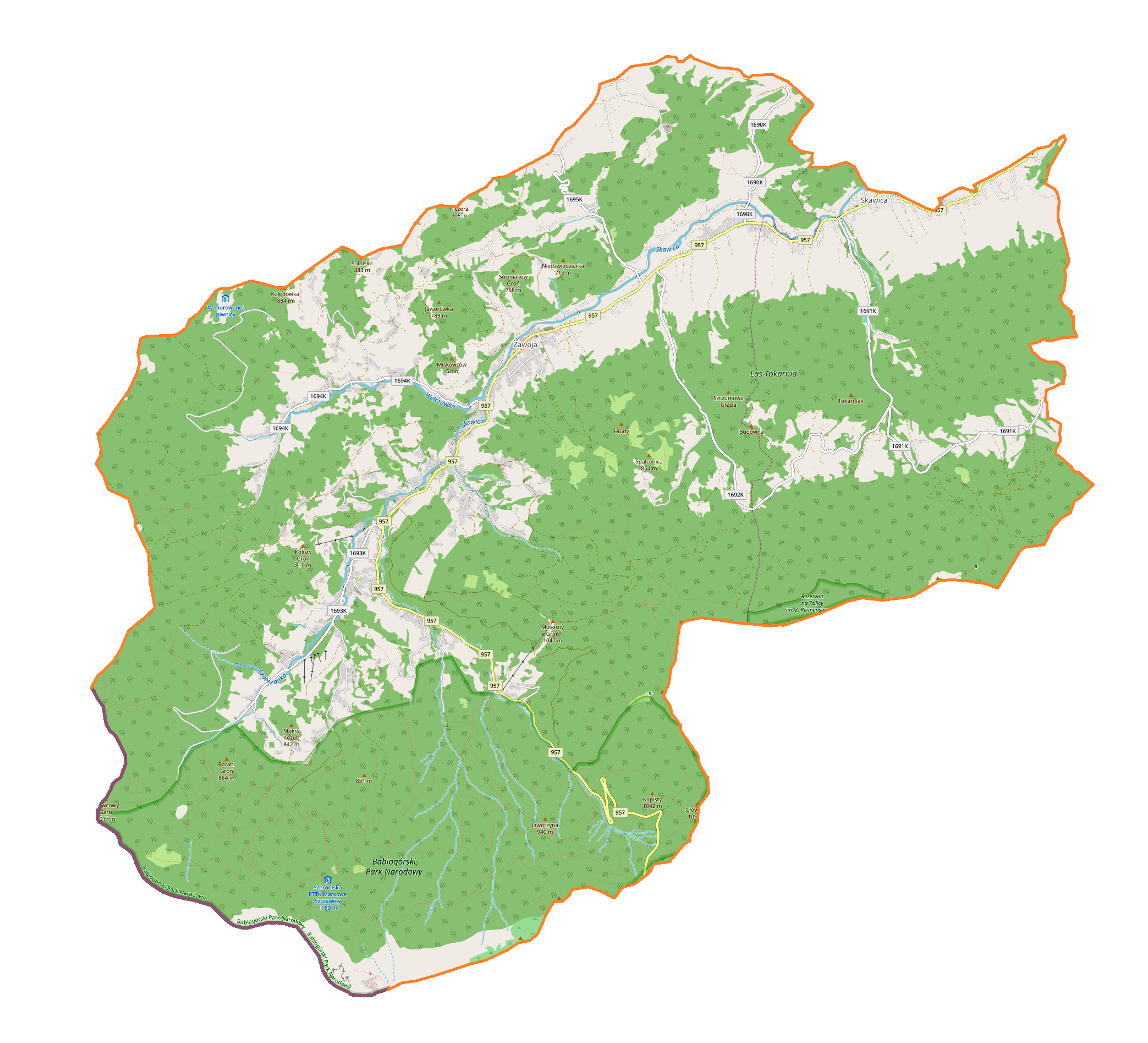 Location map